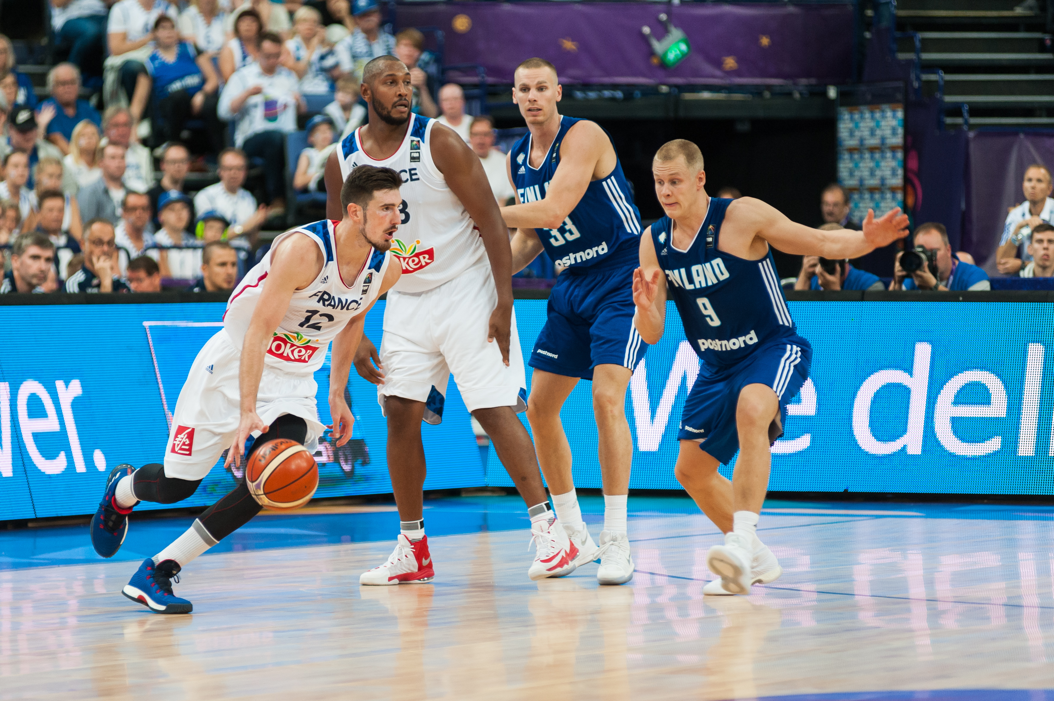 EuroBasket 2017 Group A game between France and Finland at Hartwall Arena in Helsinki, Finland.